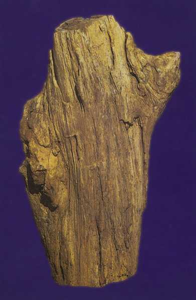 Petrified tree trunk, image from the Fossil Exhibition, Nostimo, West Macedonia, Greece